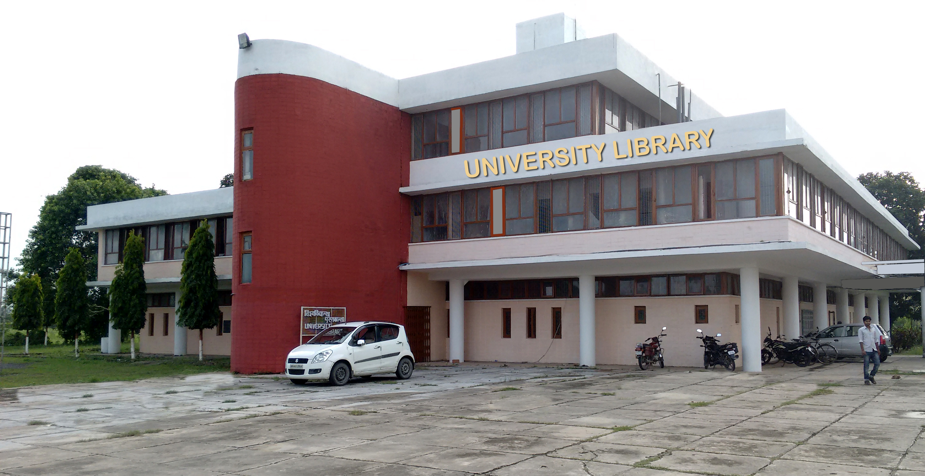 Established in the year 1978 at Tirhut College of Agriculture, Dholi, was shifted to present builLib-2ding at Pusa in 1981.